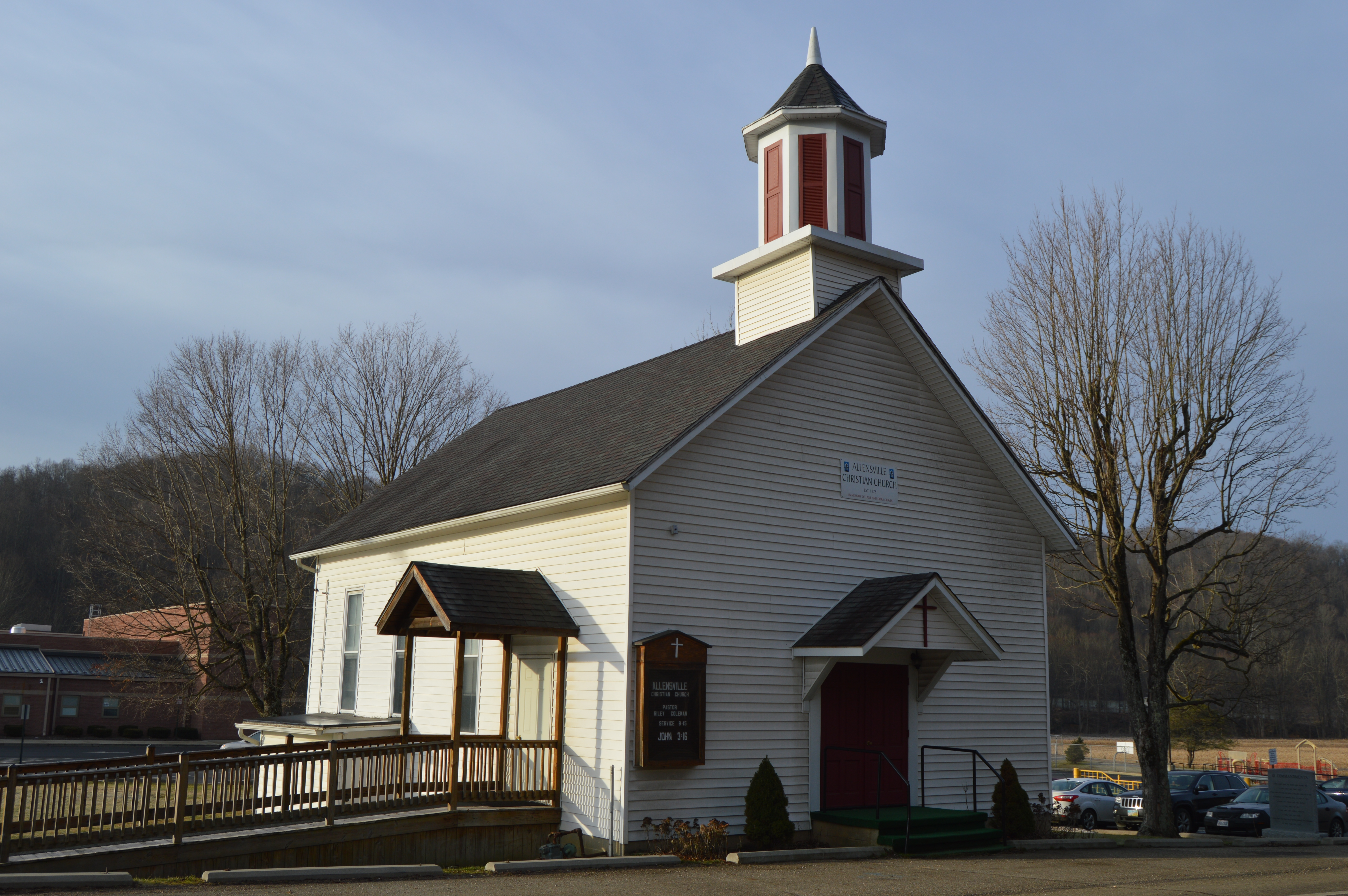 Front and eastern side of the Allensville Christian Church, located on U.S. Route 50 at Allensville in Richland Township, Vinton County, Ohio, United States.